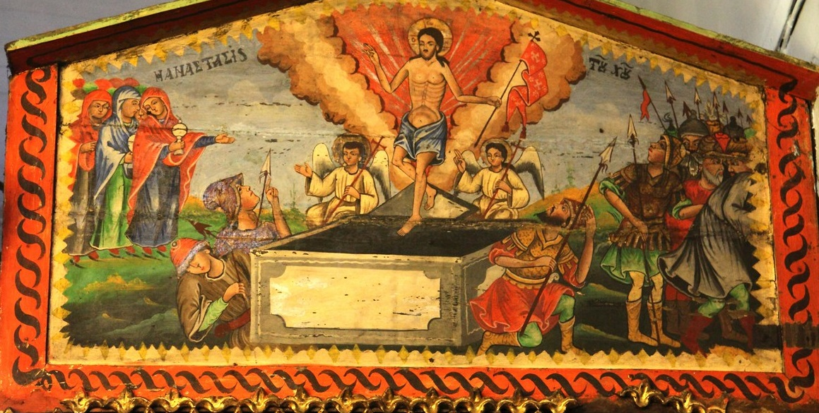 Agia Triada Kato Thodoraki Iconostasis